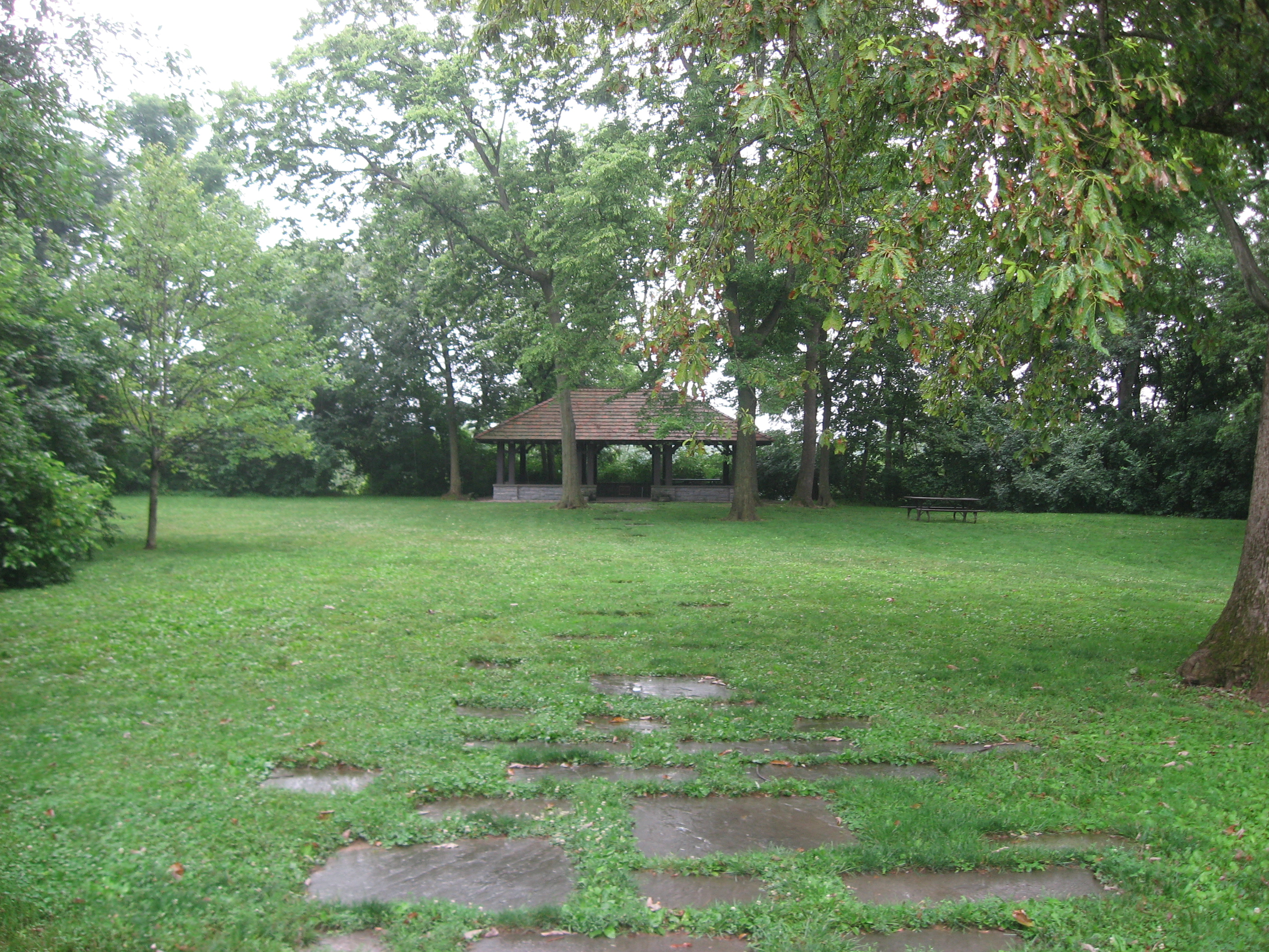 Overview of the Madisonville Site, located in a park off the southern end of Mariemont Avenue in Mariemont, Ohio, United States. One of the most important villages of the Fort Ancient culture, it is an archaeological site and is listed on the National Register of Historic Places. It is also part of the Mariemont Historic District, a National Historic Landmark District.